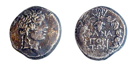 Coin from Phanagoreia in Cimmerian Bosporus. Apparently Sear# 3612 (a didrachm of 1st cent. BC).